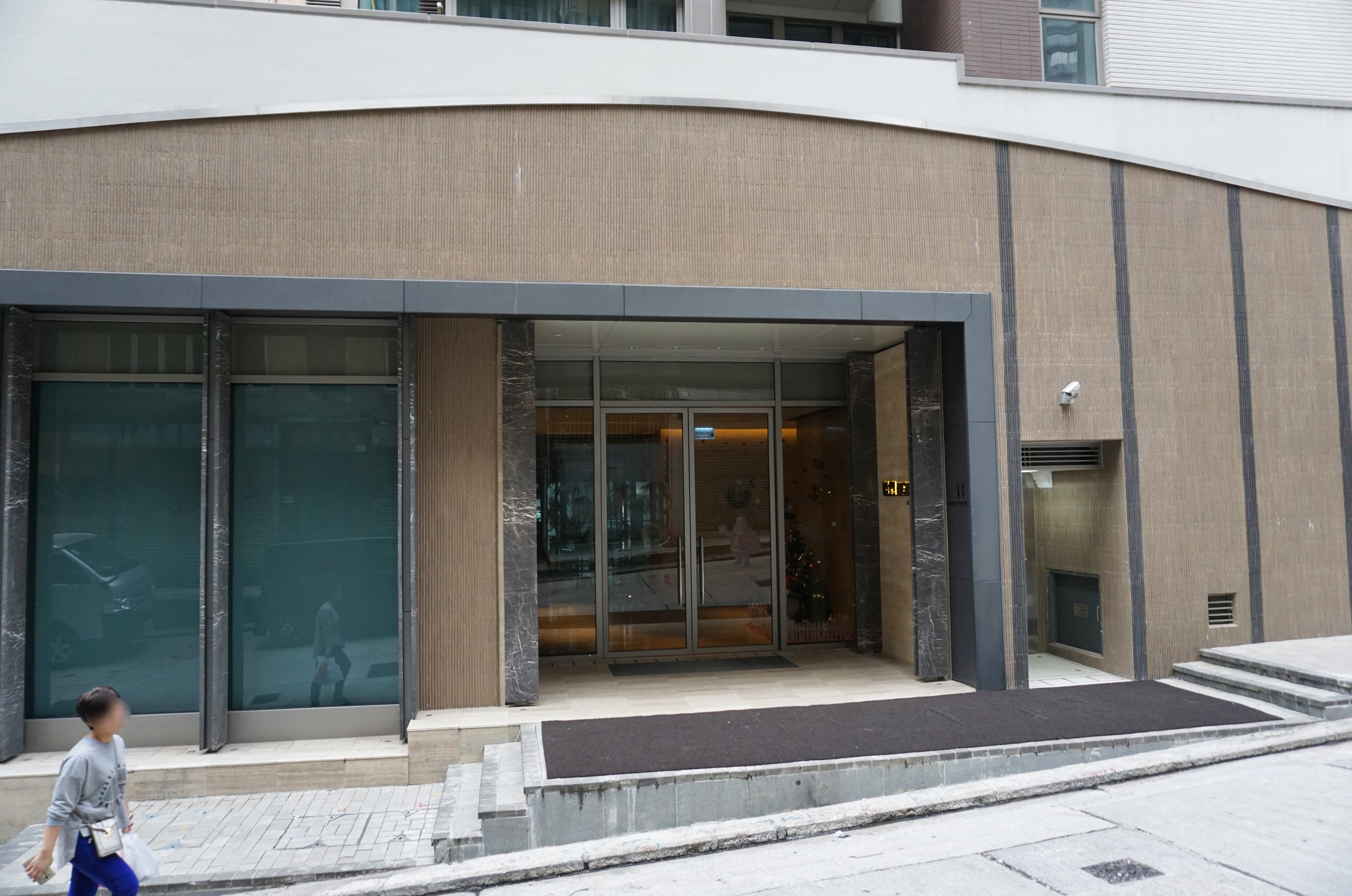 High West in Shek Tong Tsui, Hong Kong.